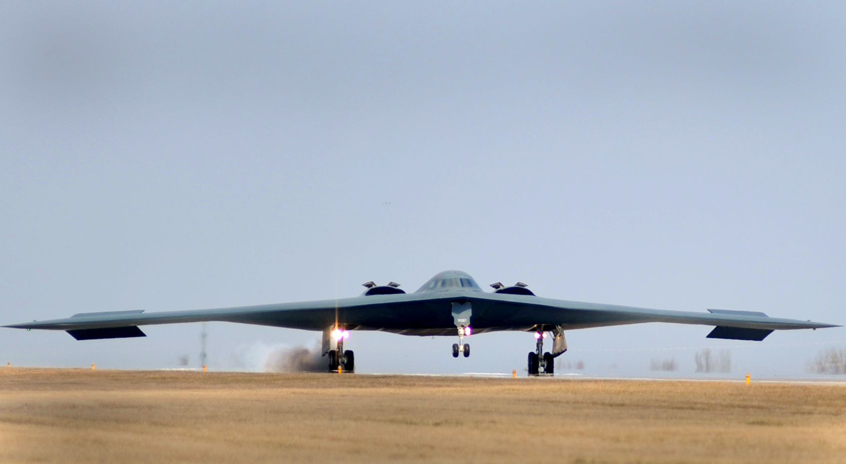 One of three U.S. Air Force B-2 Spirit stealth bomber aircraft returns to Whiteman Air Force Base, Mo., from a mission in supporting the no-fly zone over Libya, March 20, 2011, as part of Joint Task Force Odyssey Dawn. The no-fly zone was imposed by the United Nations Security Council Resolution 1973 authorizing military action.